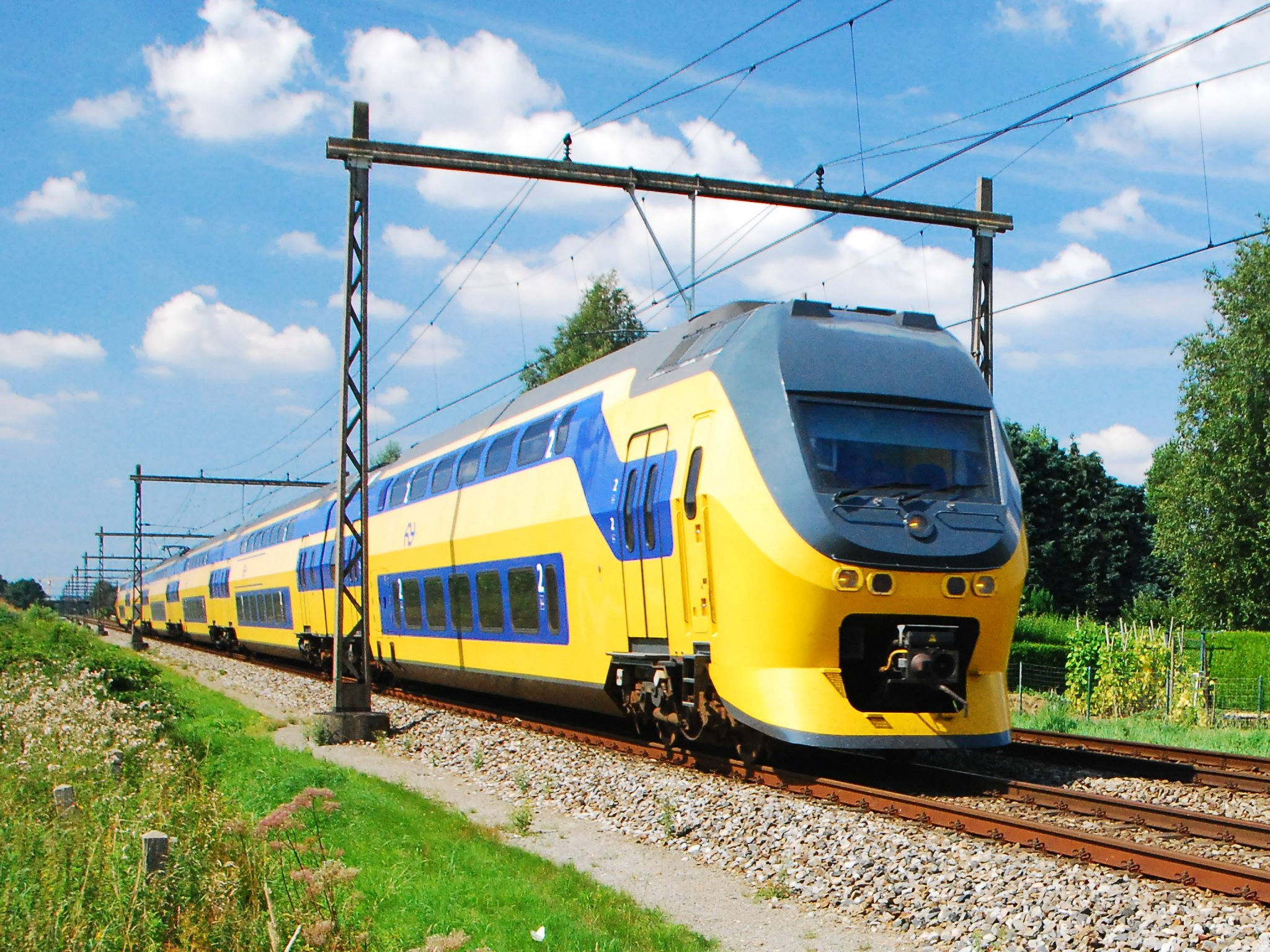 DD-IRM near Teuge (NL)